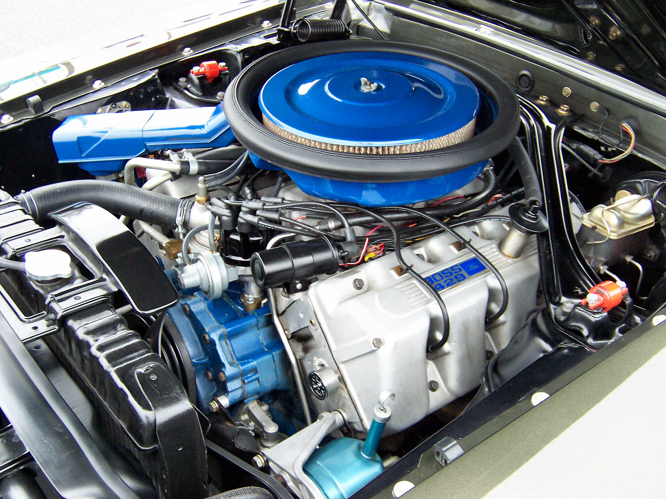 Ford Boss 429 engine in a Ford Mustang Boss 429. 1359 of these cars were built to homologate the engine for NASCAR. The Boss 429 was a "385" series big-block.